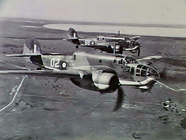 Bristol Beauforts at No. 1 Operational Training Unit, Bairnsdale, Victoria. Nearer camera: A9-102, 262097, Flying Officer Peter John Gibbes, DFC; A9-66, 377, Squadron Leader Cyril Clarence Williams.